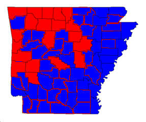 county map of 2004 Arkansas senate election